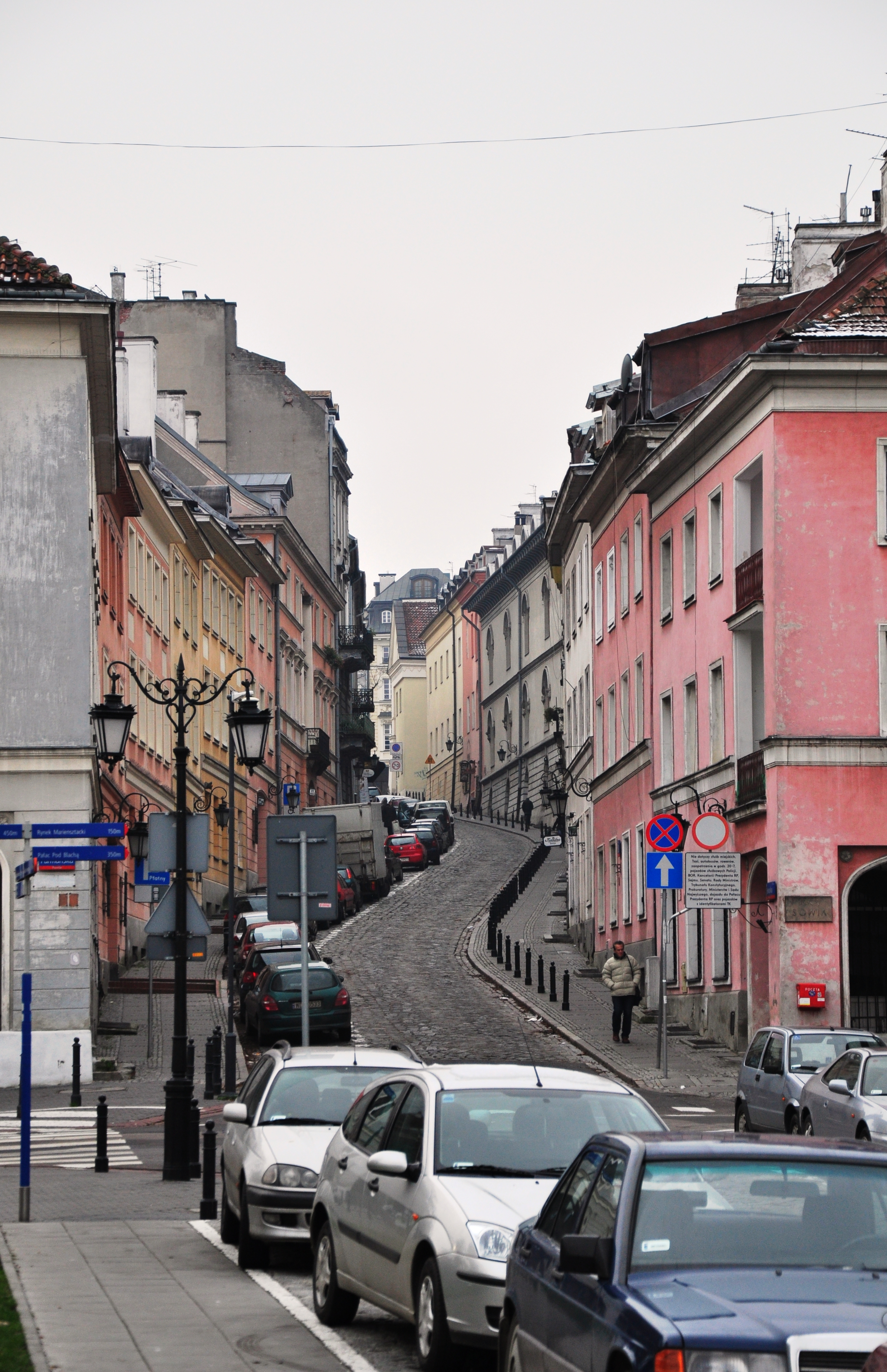 Warsaw